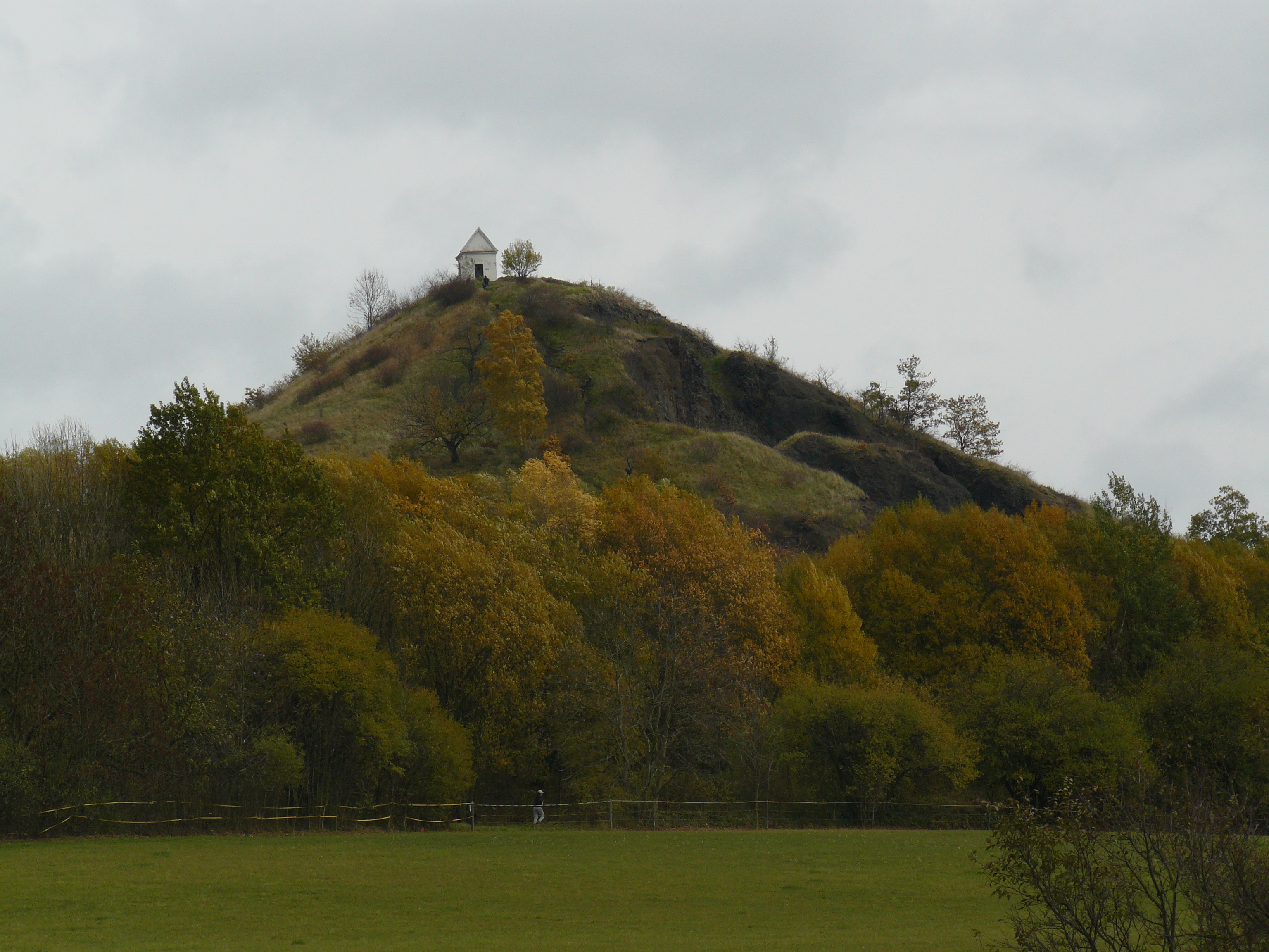 Zebin hill near Valdice, Czech Republic